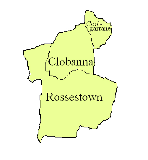 Outline map, showing the townlands in Shyane civil parish in North Tipperary.